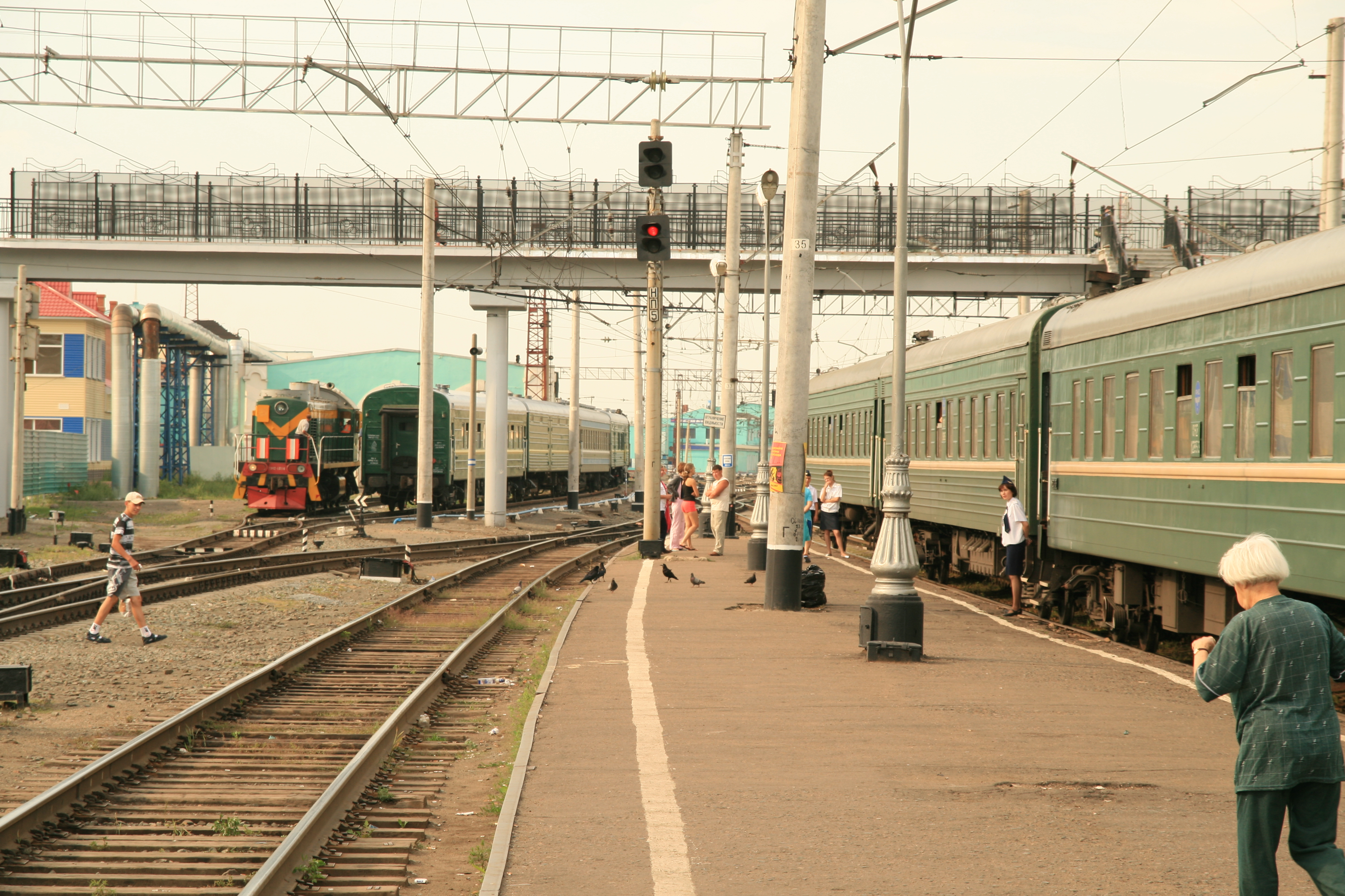 Omsk railroad station platform with trains.